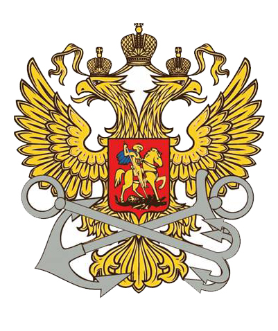 Symbol of Federal agency for maritime and river transport